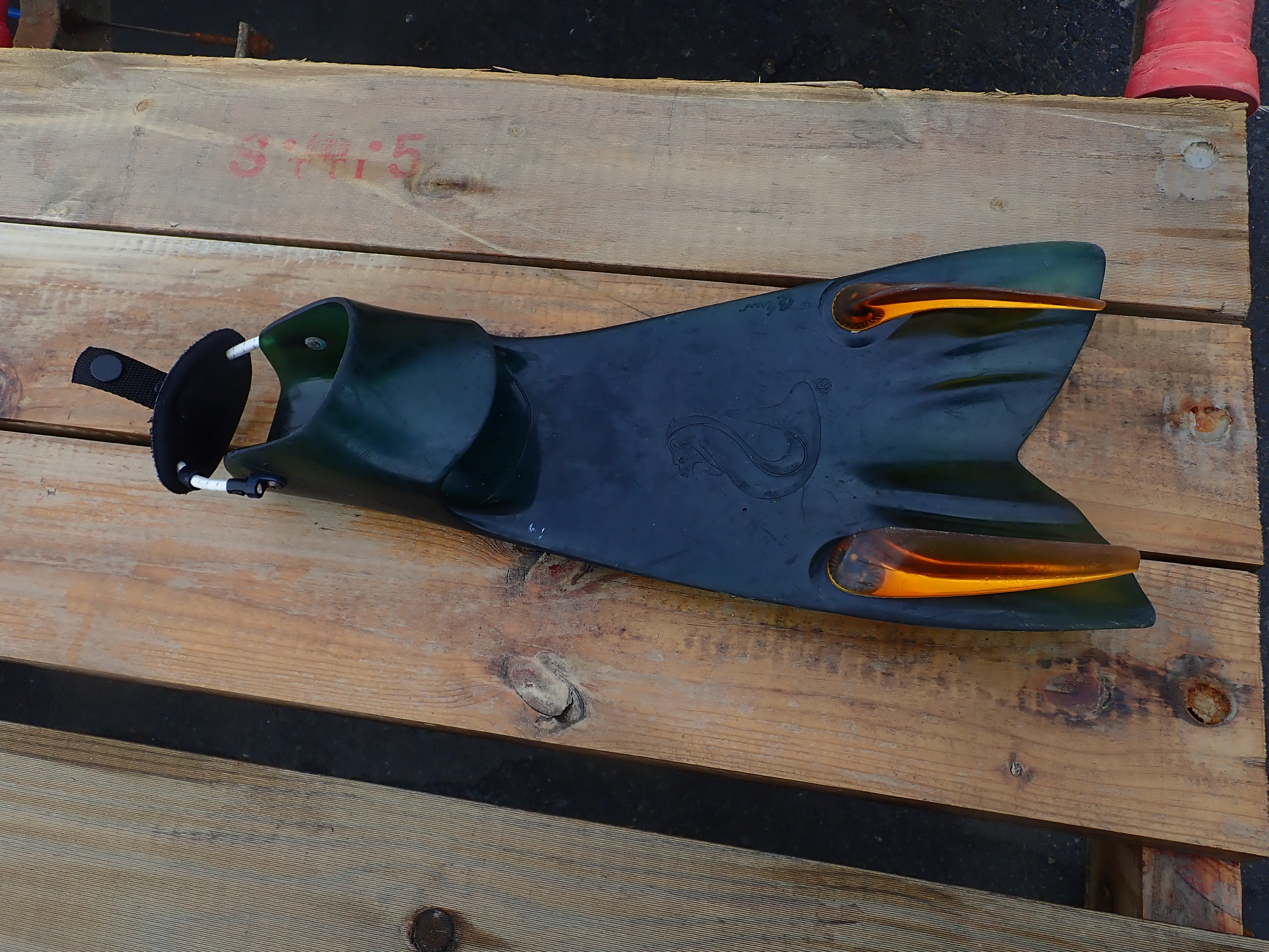 Force fin with vanes